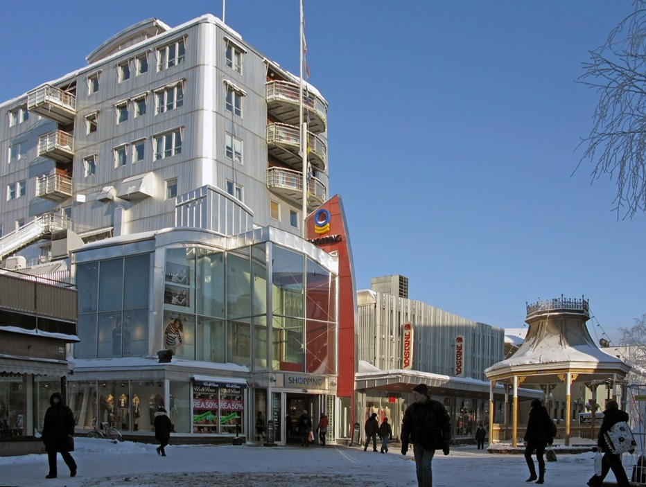 The shopping mall 'Shopping' in Luleå, inaugurated in 1955